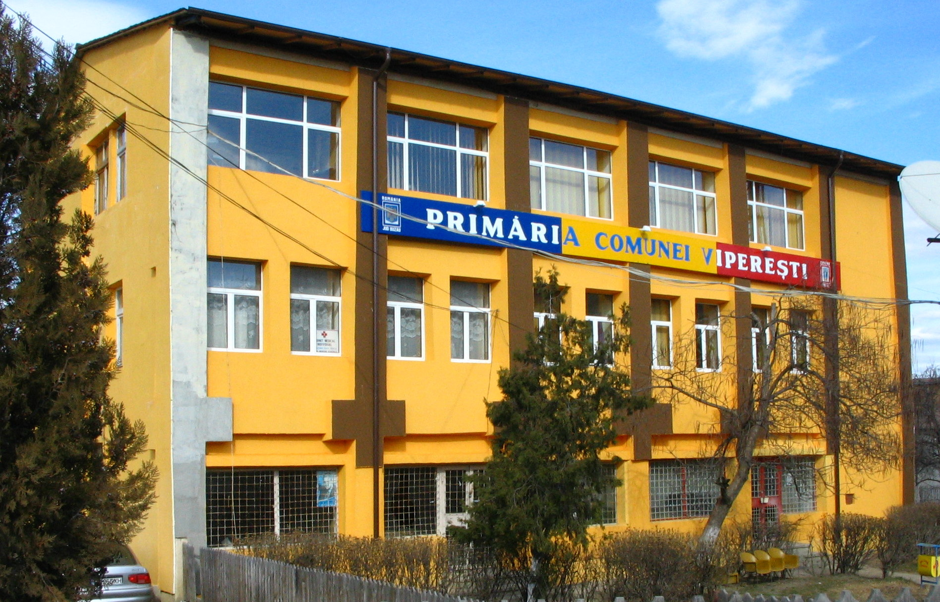 Vipereşti, Buzău County, Romania town hall Primăria din Vipereşti, Buzău, România